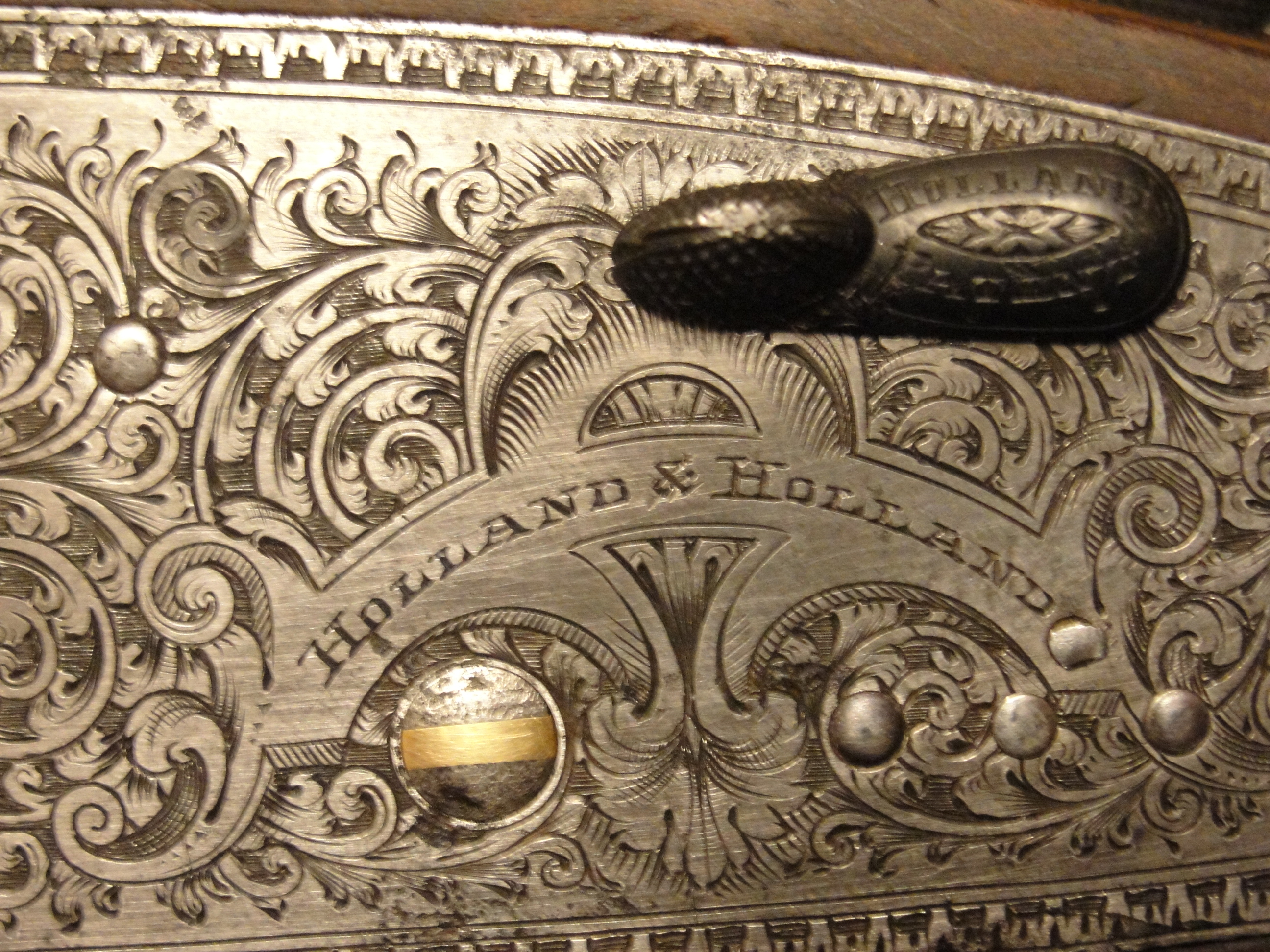 Holland & Holland Mark on a Hunting 2-Barrel Shotgun of early 20th Century